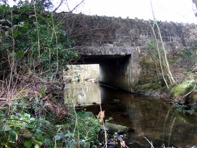 Brynberian bridge The Afon Brynberian is very low after several weeks of dry weather but the depth indicator suggests that the level can rise considerably when water pours off the hills. The bridge was recorded as in existence in 1600 but has required concrete strengthening. The B4329 passes over it.